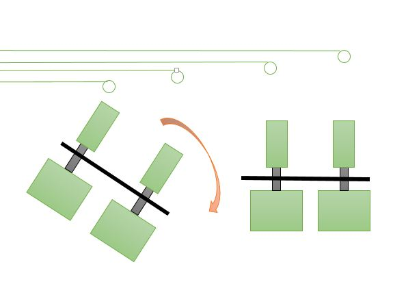 وهو منصب توضع عليه الكونات في عملية التسدية